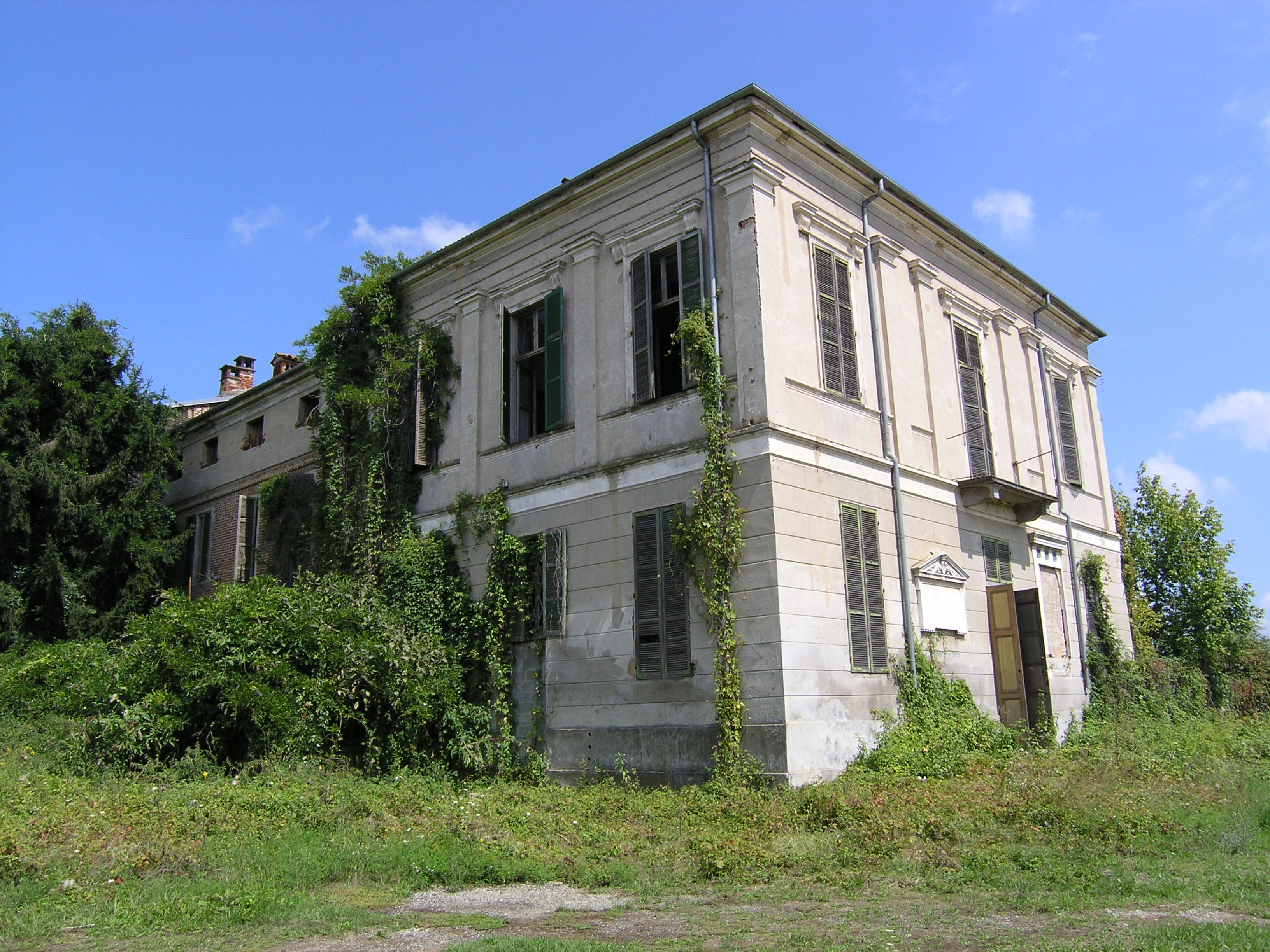 Benso di Cavour family palace at Leri Cavour (Italy)